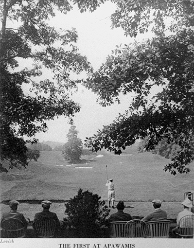 Harold Hilton tees off at the first hole, during the 1911 United States Amateur Championship at Apawamis Golf Club.